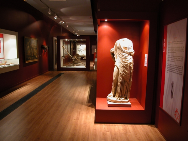 Sala I del Museo de Guadalajara (España).